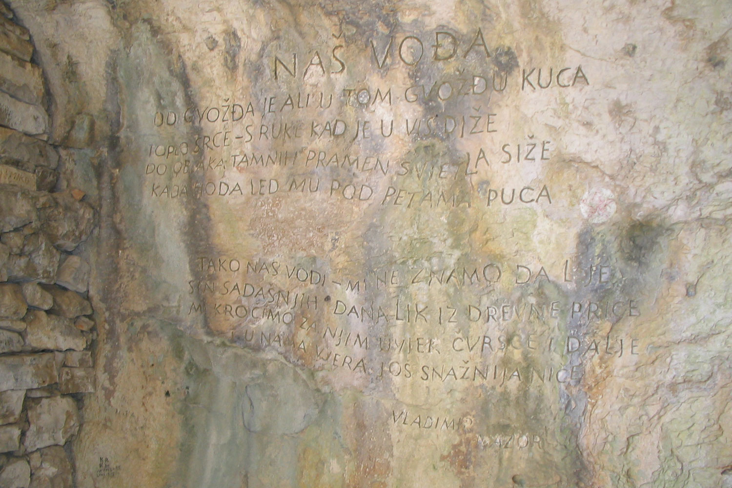 Vladimir Nazor lyrics about Tito in Tito's cave, island of Vis, Croatia